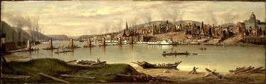 painting of Pittsburgh after Great Fire, by William Coventry Wall